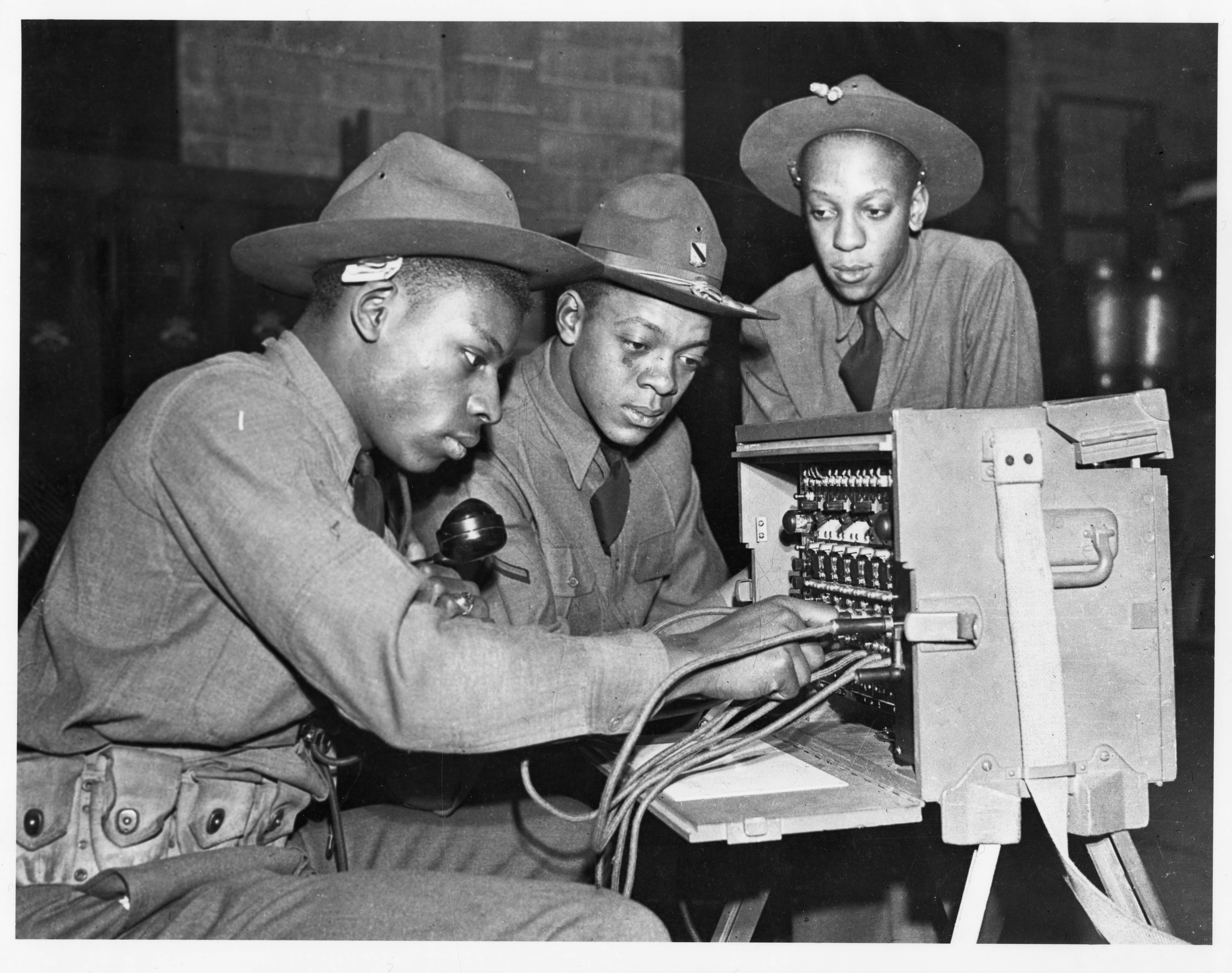 From back of photo: Telephone Switchboard. L to R: PVT Harry Ross, PFC Thomas J. Sockwell, PVT Symeone E. Dyer, 372nd Ind. Hqrs Det., Columbus, Ohio.